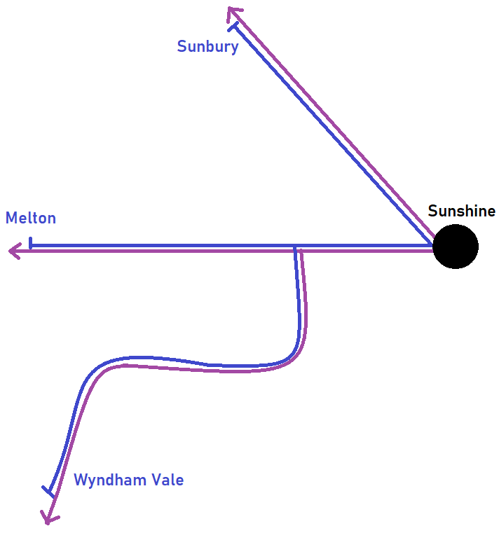 A map of the rail stretching out into the west of melbourne.